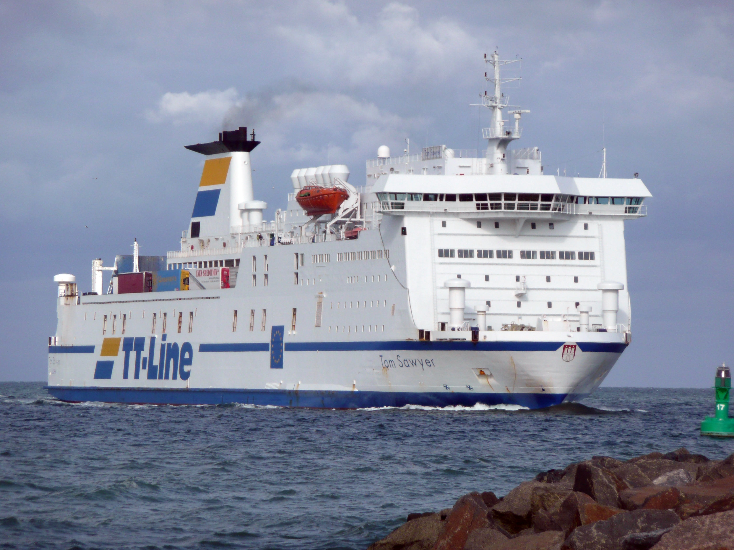 This image shows the ferry "Tom Sawyer" (TT-Line shipping company) in Warnemünde.